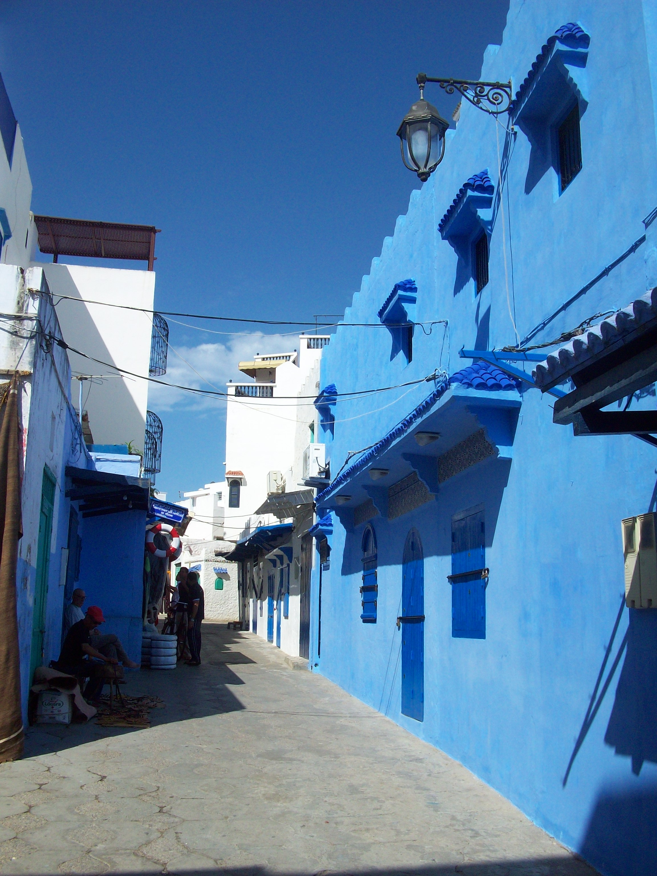 Medina of Assilah, Morocco